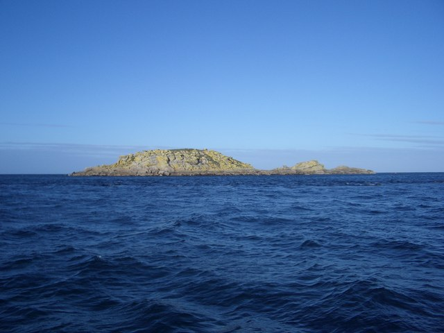 Great Ganinick and Little Ganinick, Isles of Scilly Great Ganinick and Little Ganinick, the Eastern Isles, Isles of Scilly